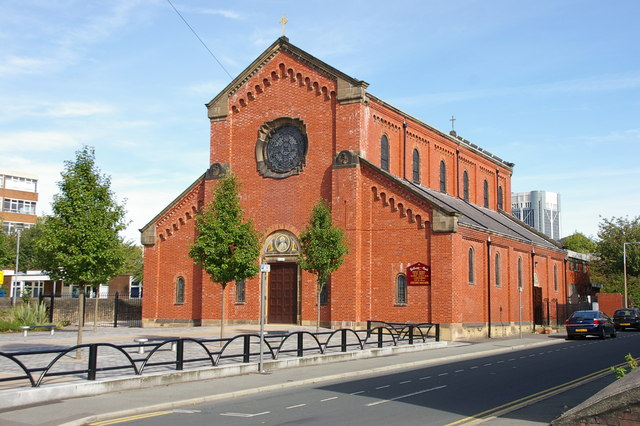 Roman Catholic Church of St Anne, Paradise Street, Blackburn, Lancashire, seen from the southwest. The west end of the church was damaged by fire and demolished. The west wall was rebuilt in a new position, reducing the church to half its original size.